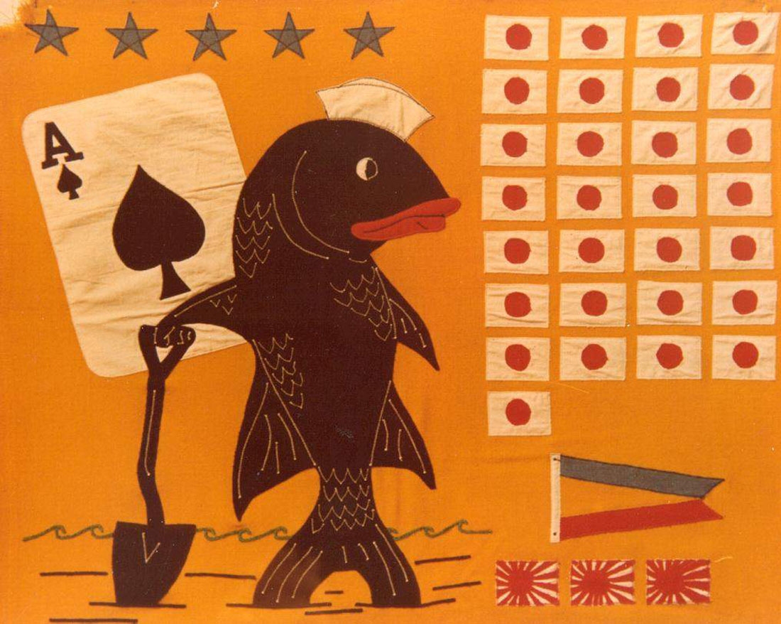 USS Spadefish's battle flag from World War II.